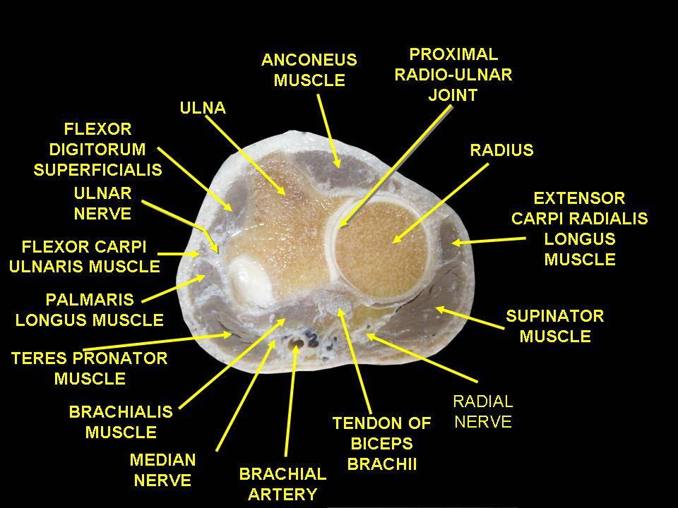 Anatomical dissections